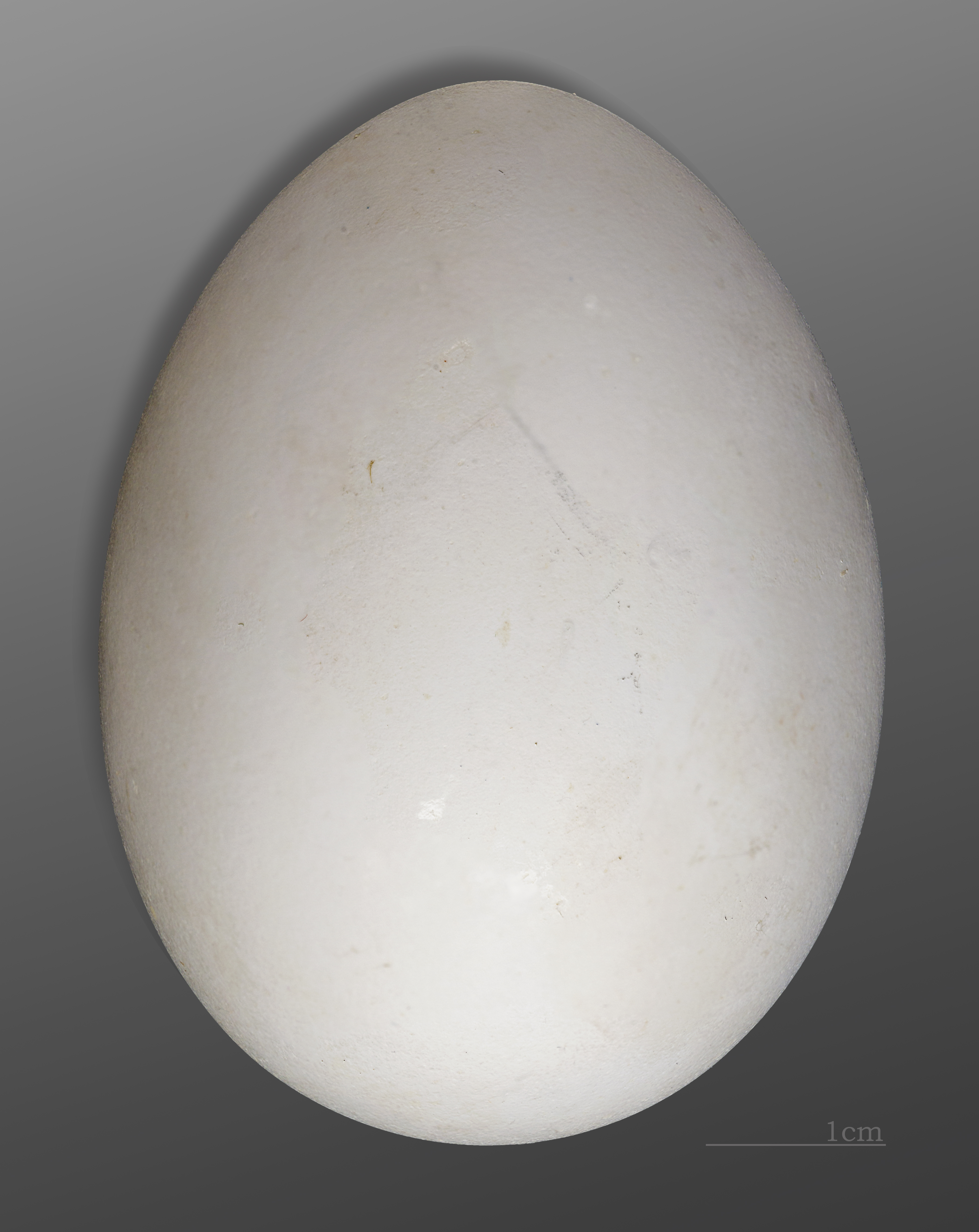 Egg of Fea's petrel. Collection of René de Naurois /Jacques Perrin de Brichambaut.